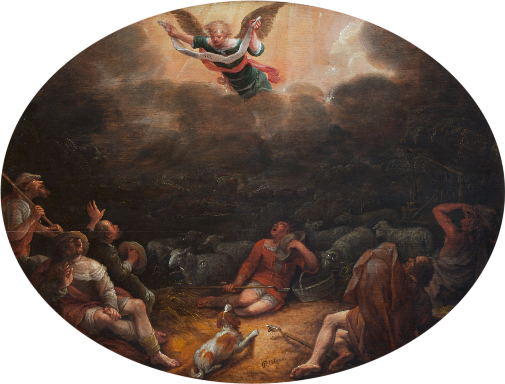 Annunciation to the shepherds oil on panel 42 x 54 cm signed b.: D.Colijns 1640 - 1642